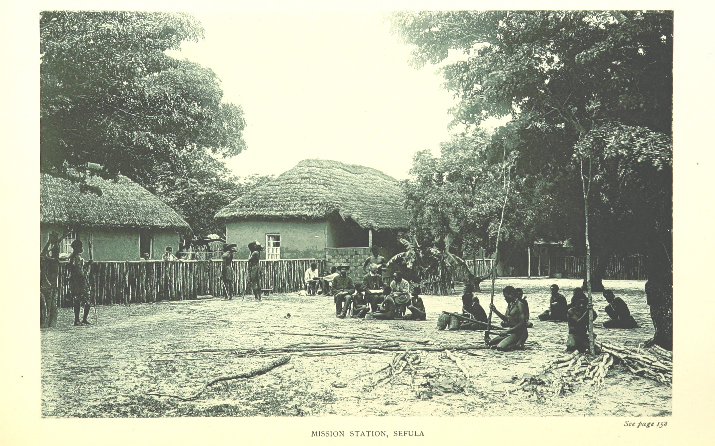 Sefula Mission run by Francois Coillard Image taken from page 161 of 'Reality versus Romance in South Central Africa. An account of a journey across the Continent ... With ... illustrations, etc'